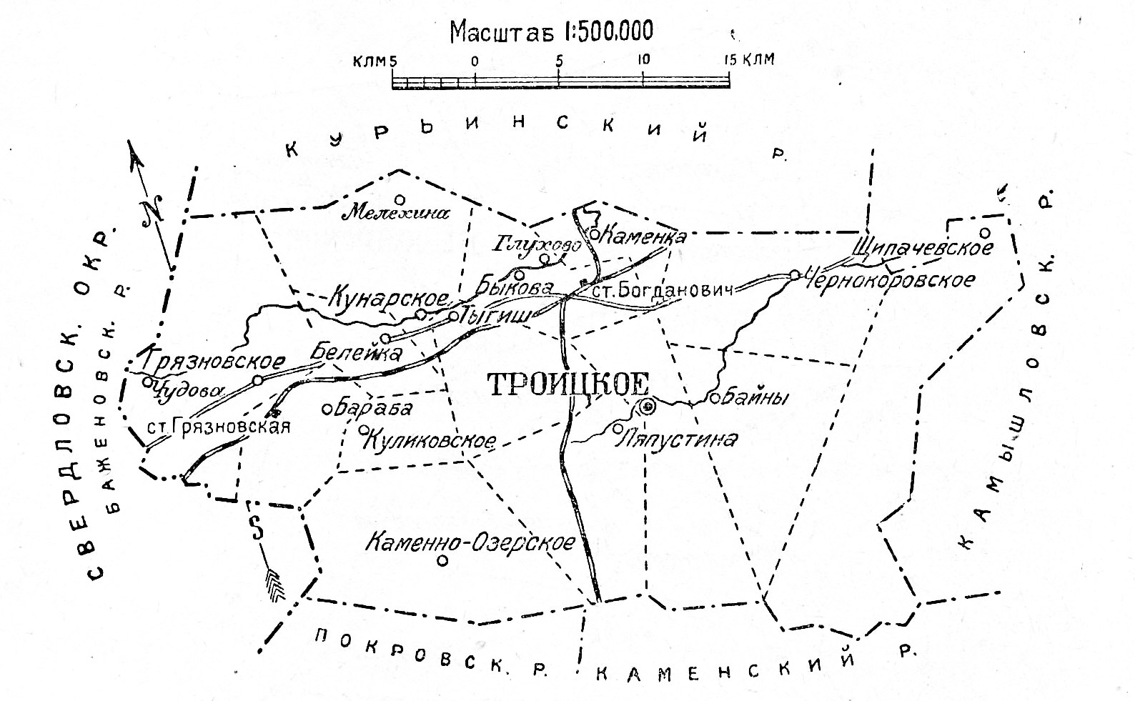 Map of Bogdanovichskiy rayon (Shadrinskiy okrug of Uralic Region of RSFSR) in 1928.